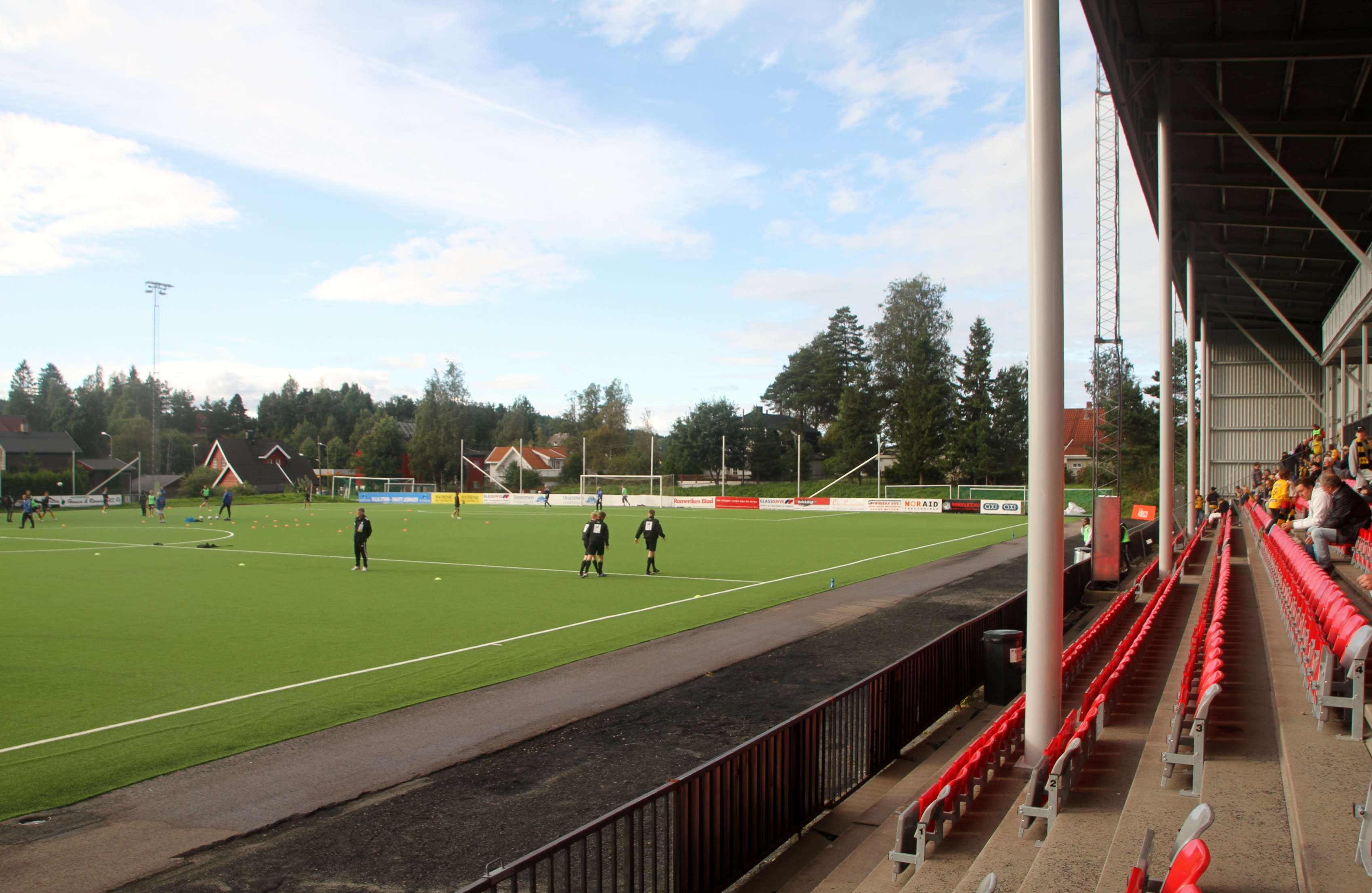 Strømmen stadium in Skedsmo municipality, Akershus, Norway. The stadium takes c 2000 spectators.